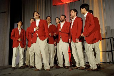 The Stanford Mendicants performing at a show